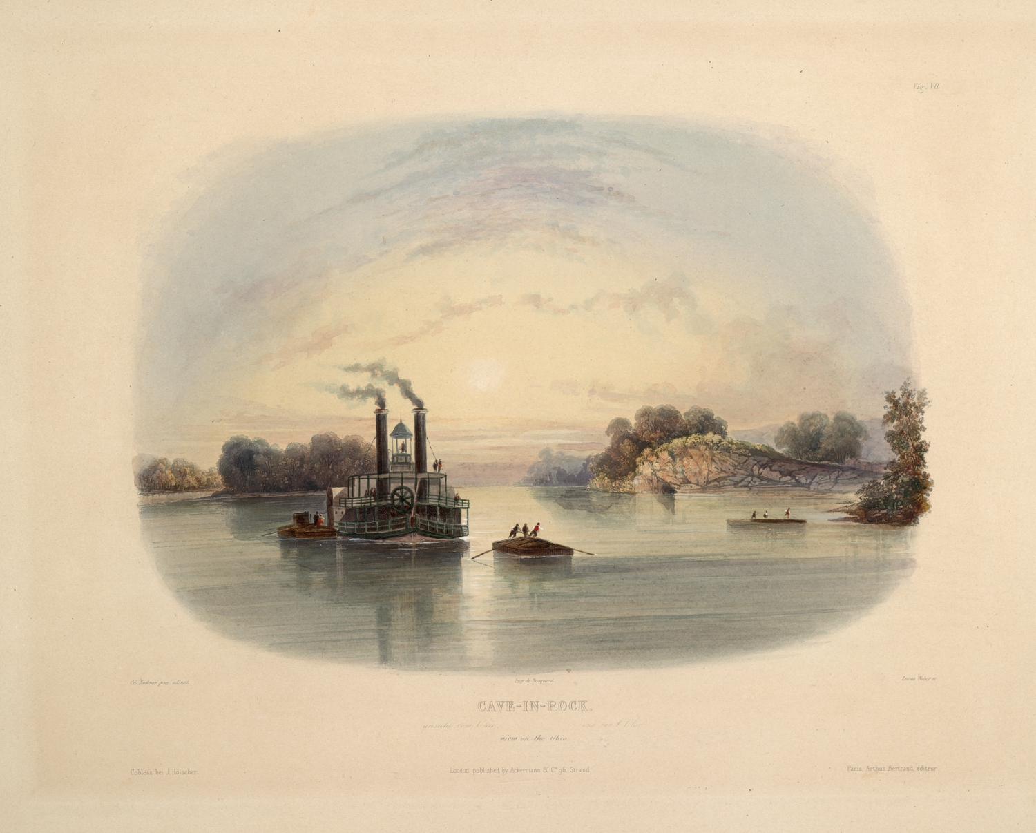 Aquatint by Karl Bodmer from the book "Maximilian, Prince of Wied’s Travels in the Interior of North America, during the years 1832–1834" by Prince Maximilian of Wied (Publisher: Ackermann & Co., 1839). Original caption: Cave-in-Rock. Ansicht vom Ohio / vue sur l’Ohio / view on the Ohio